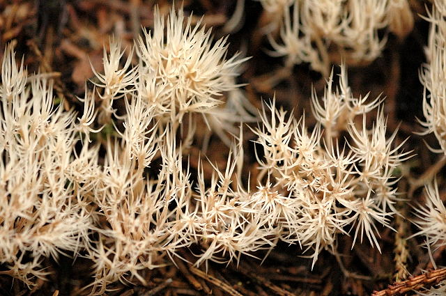 Pterula subulata (= Pterula multifida) from Commanster, Belgium. The determination of the species shown in this picture has been verified.